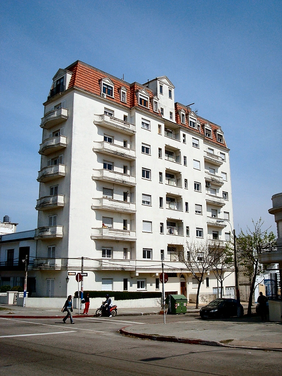 Apartment building in La Comercial, seen from Artigas Boulevard, Montevideo, Uruguay.